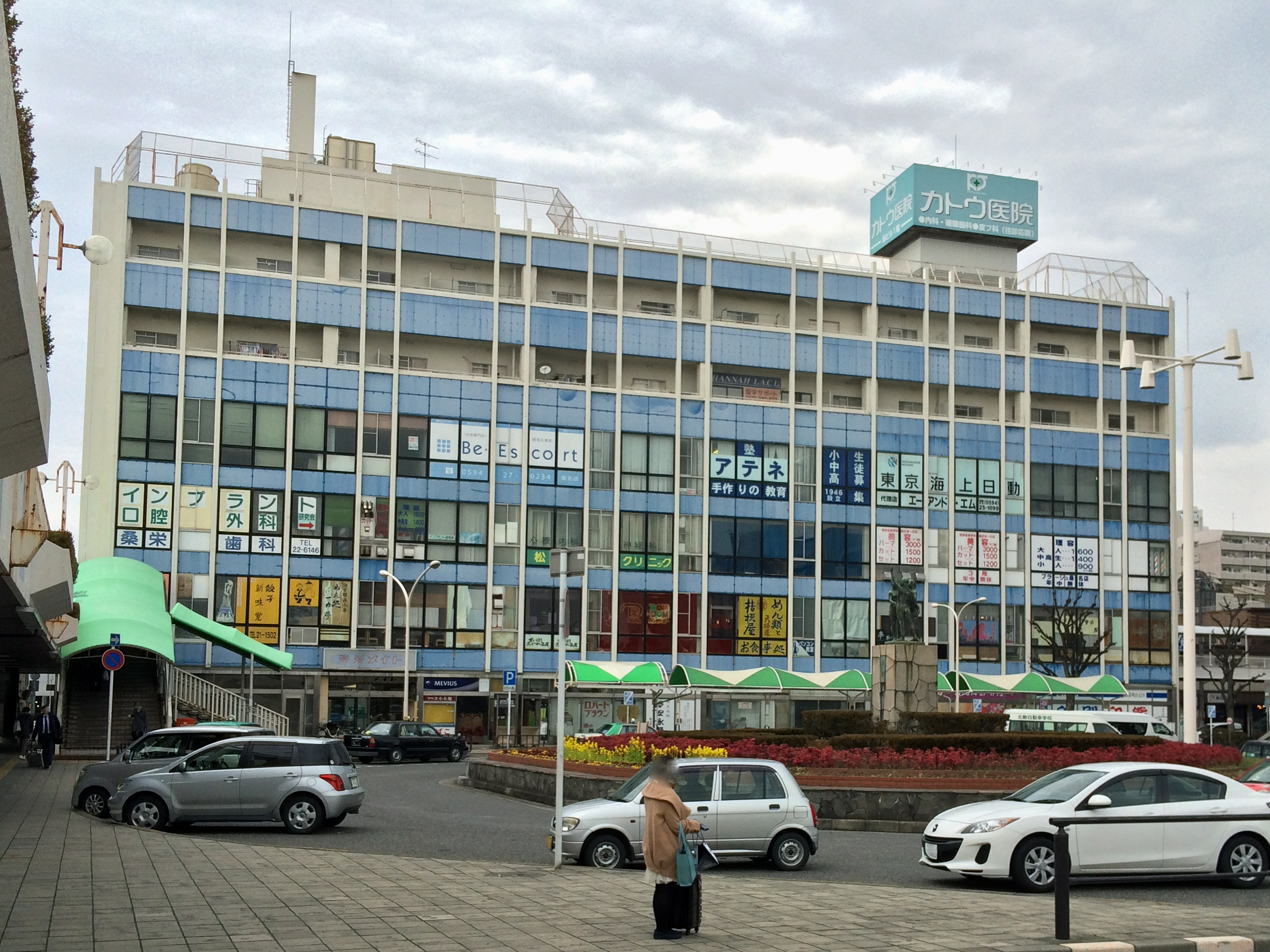 Souei Meito exterior. （From traffic circle at Kuwana station East exit. ）